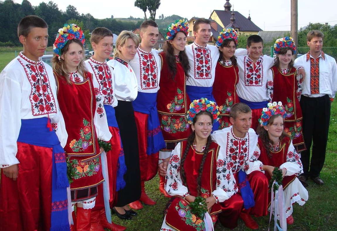 Ukrainians in from Maramureș Mountains (Inner Eastern Carpathians, north of Romania) wearing the regional folk-costume of Poltava in central Ukraine; photo – village Mokre, 2007